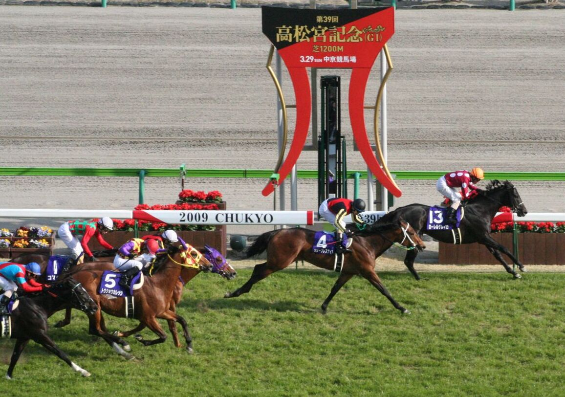 The 39th Takamatsunomiya Kinen (Chukyo Racecourse)